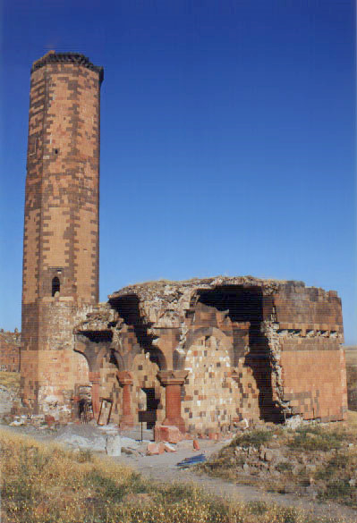 The ruins of Ebul Menuchehr Mosque, an 11th century mosque. Photographed by Andy Carvin in September 1999.